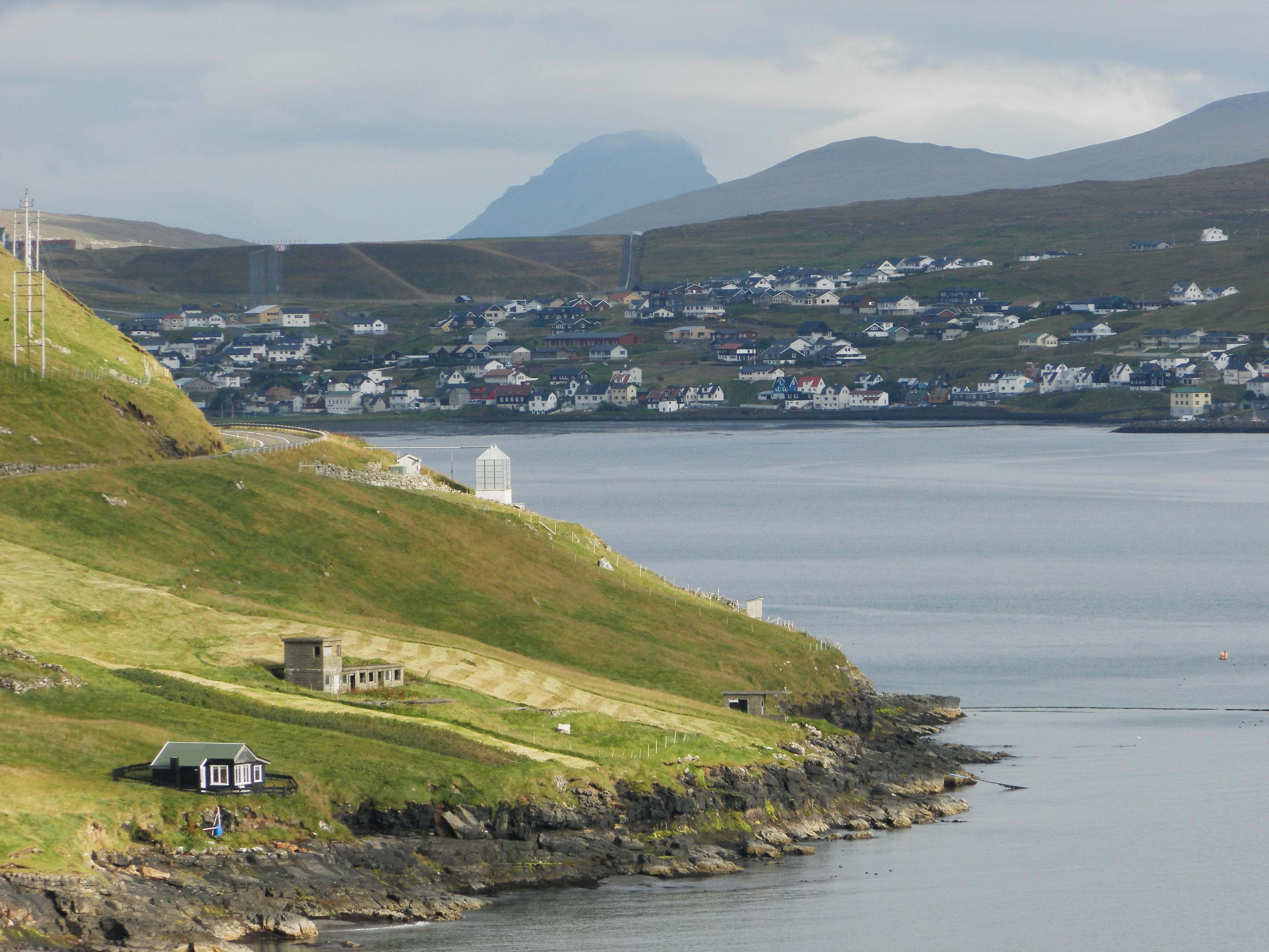 Sørvágur is one of the three larger villages on the island of Vágar in the Faroe Islands. The top of a mountain of the small island of Koltur is visible in the back ground. Vágar Airport is just east of Sørvágur. This photo was taken further west, between Sørvágur and Bøur.